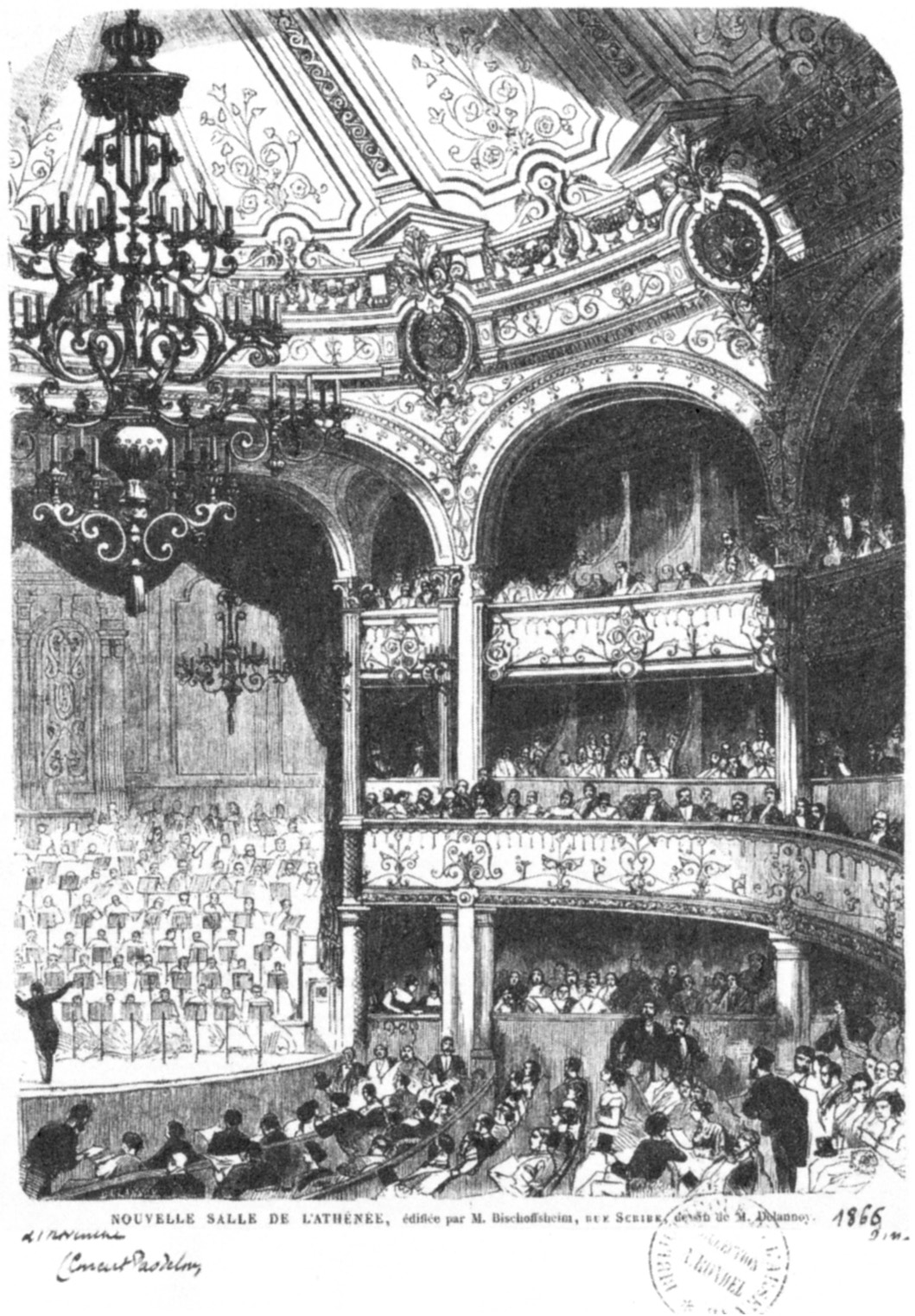 A concert, conducted by Jules Pasdeloup, which inaugurated the Salle de l'Athénée at 17 rue Scribe in Paris on 21 November 1866